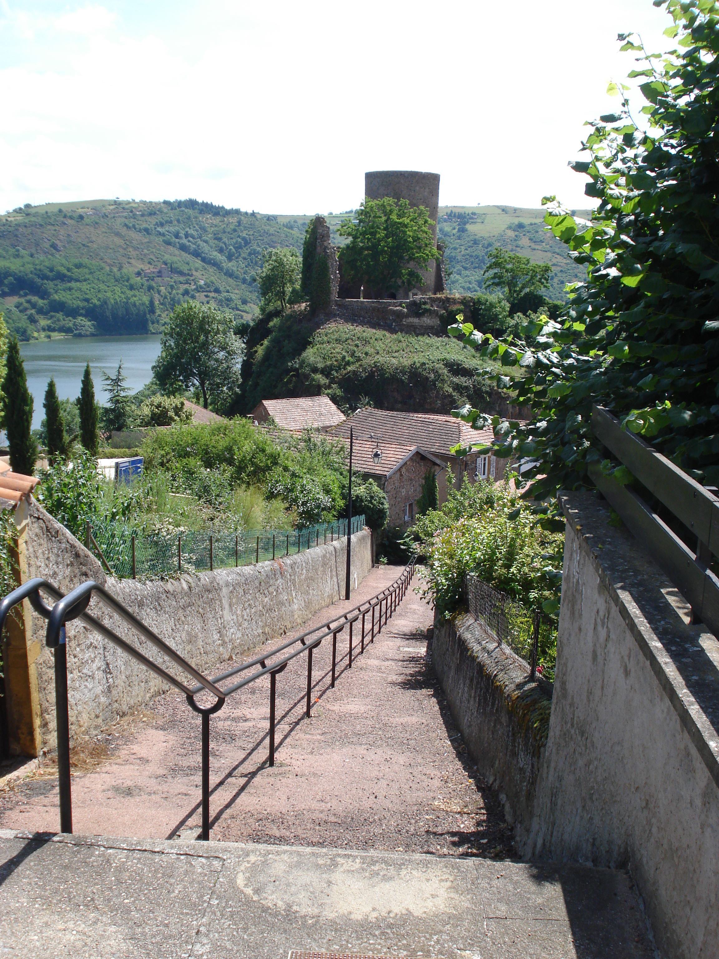 St.Jean-St.Maurice-s-Loire, Fr, tour et rampe à St.Maurice.